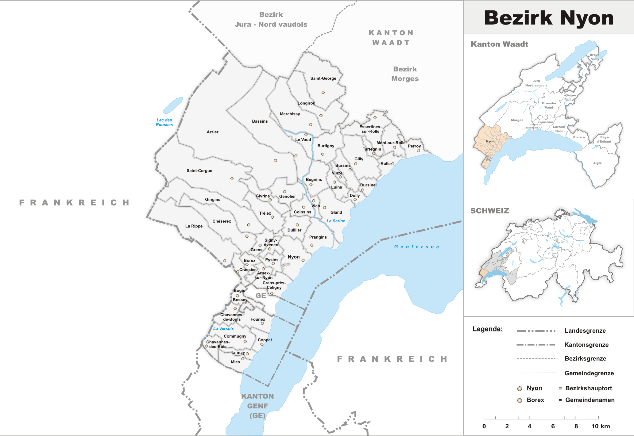 Municipalities in the district of Nyon to 2008